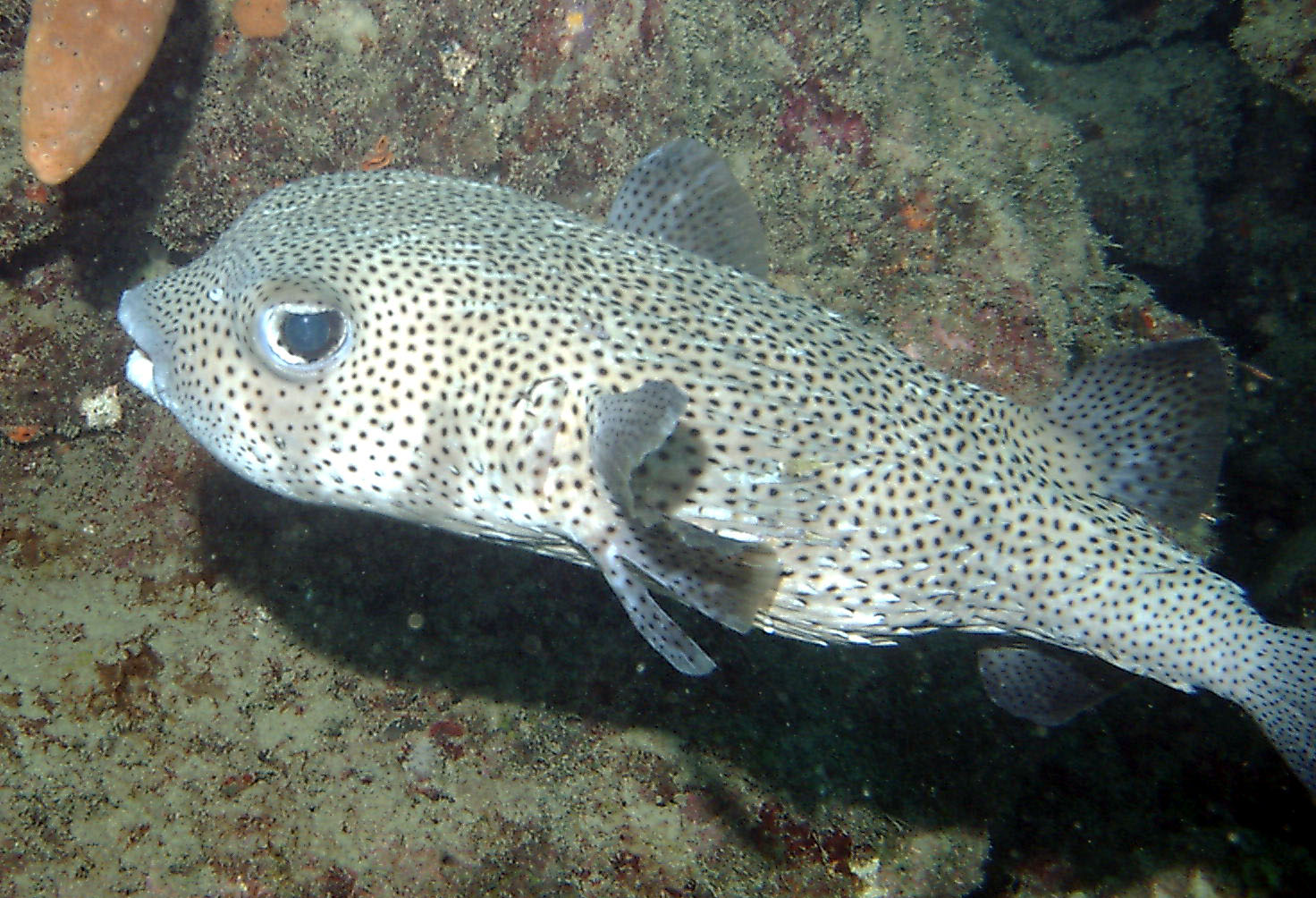 adjusted file of TucacasDiodonHystrix.jpg